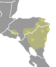 Misumalpan languages: present locations and probable extension in 16th century.